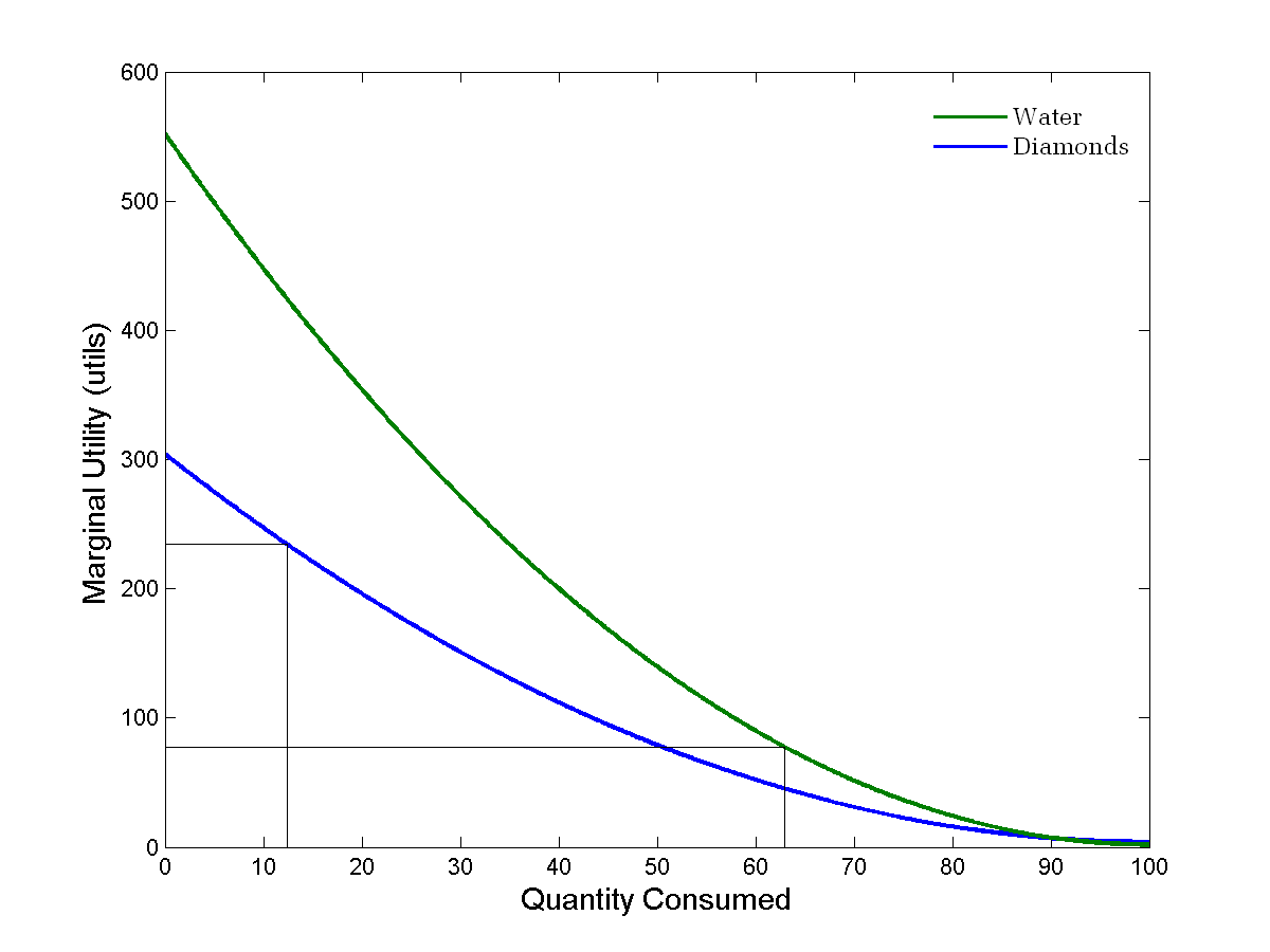 This graph shows the marginal utility (measured in utils) of diamonds and water as a function of the amount consumed. As a person consumes (buys) more and more diamonds or water each additional unit of diamonds or water results in a lower marginal utility. This is phenomenon is known as the law of diminishing marginal utility. The graph makes it clear that person derives much more utility from the first units of water than the first units of diamonds (the first units of water keep the person from dehydrating and thus have a much higher marginal utility). The person, however, is consuming 63 units of water and is only deriving 80 utils of utility for the last unit of water. Meanwhile, the person is consuming just 12 units of diamonds and is deriving 235 utils from the 12th diamond.